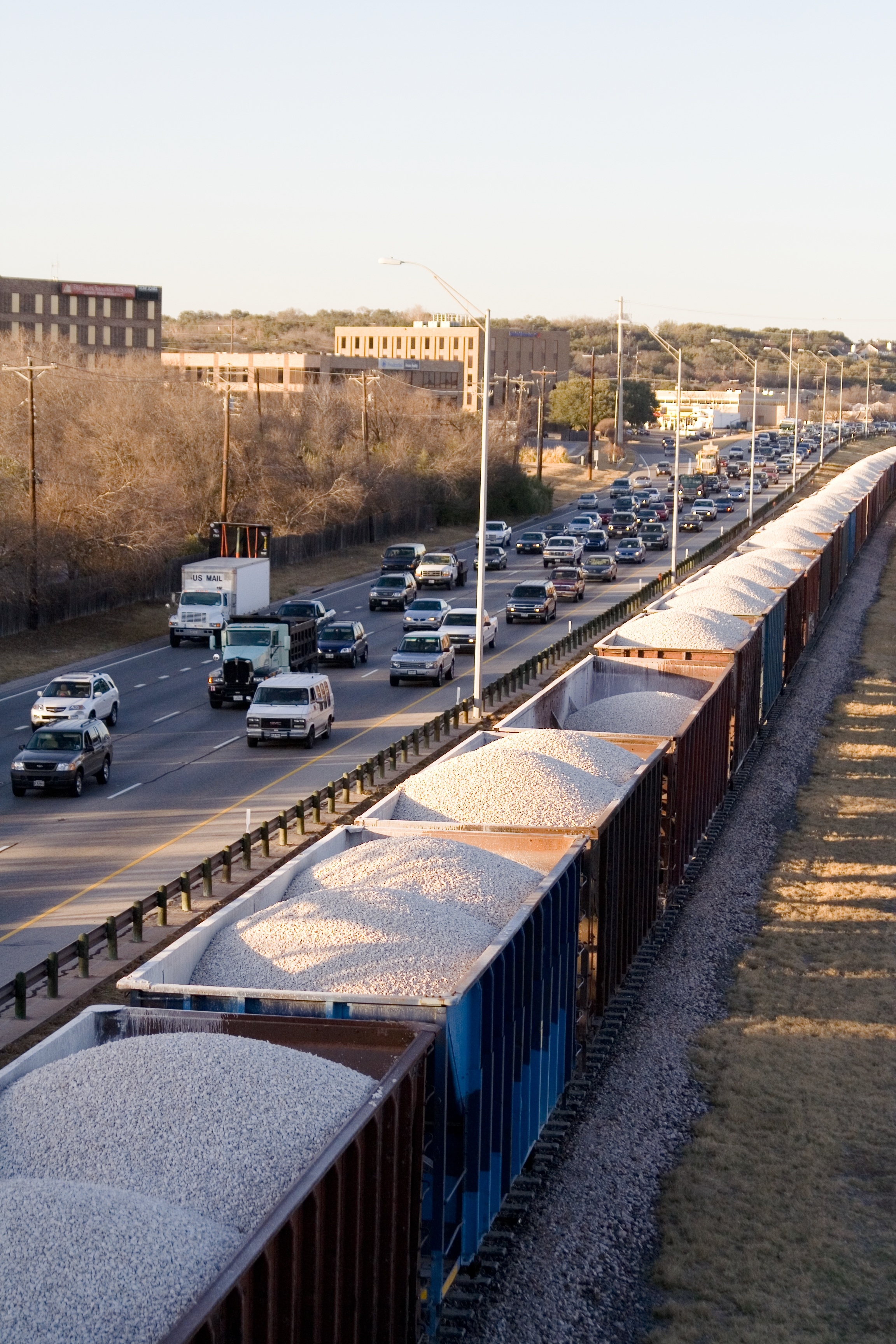 Mopac Expressway in Austin, just south of the exit for FM 2222.